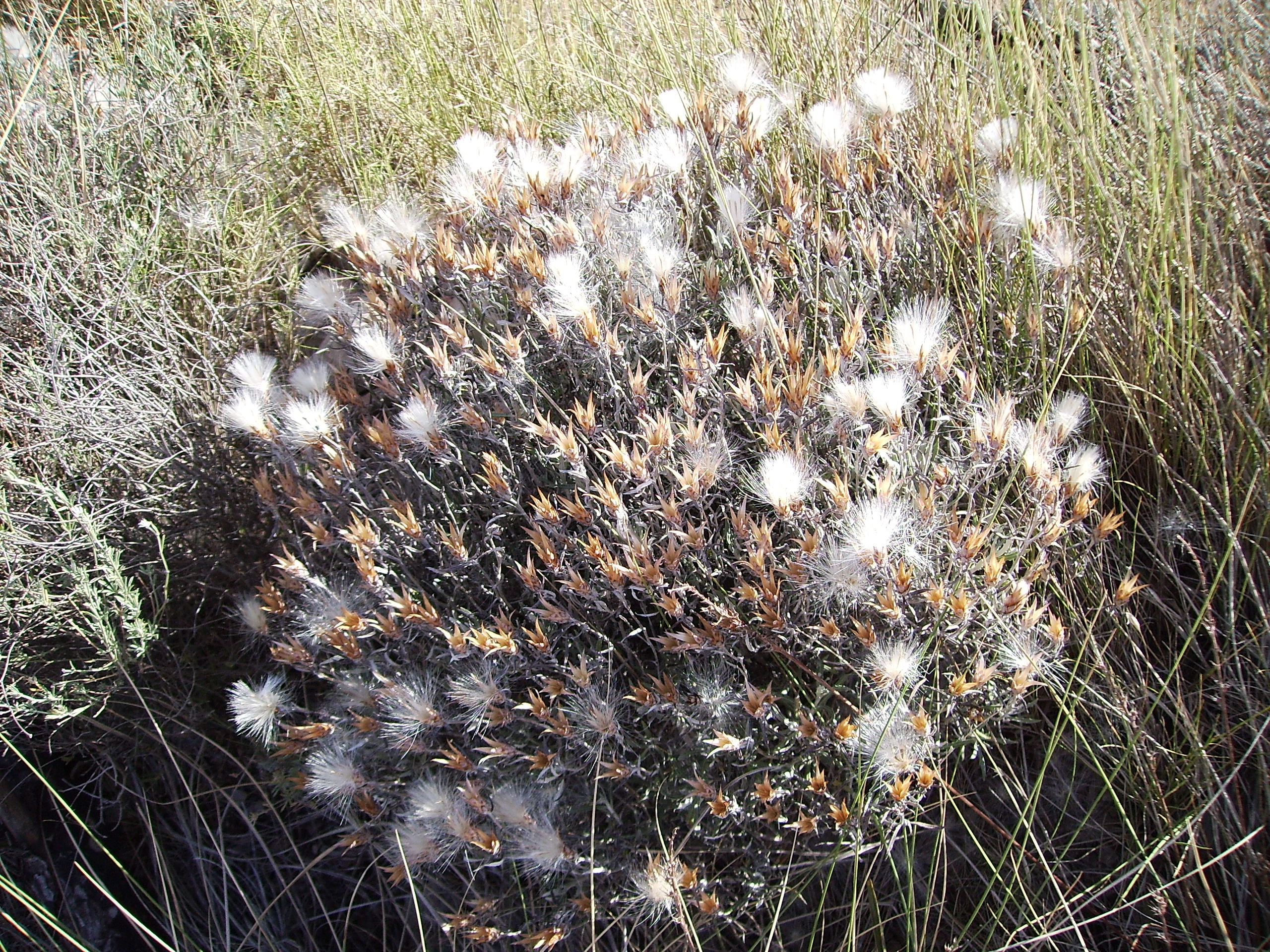 Image:Staehelina dubia 31.JPG Staehelina dubia after flowering at july in Castelltallat,Catalonia